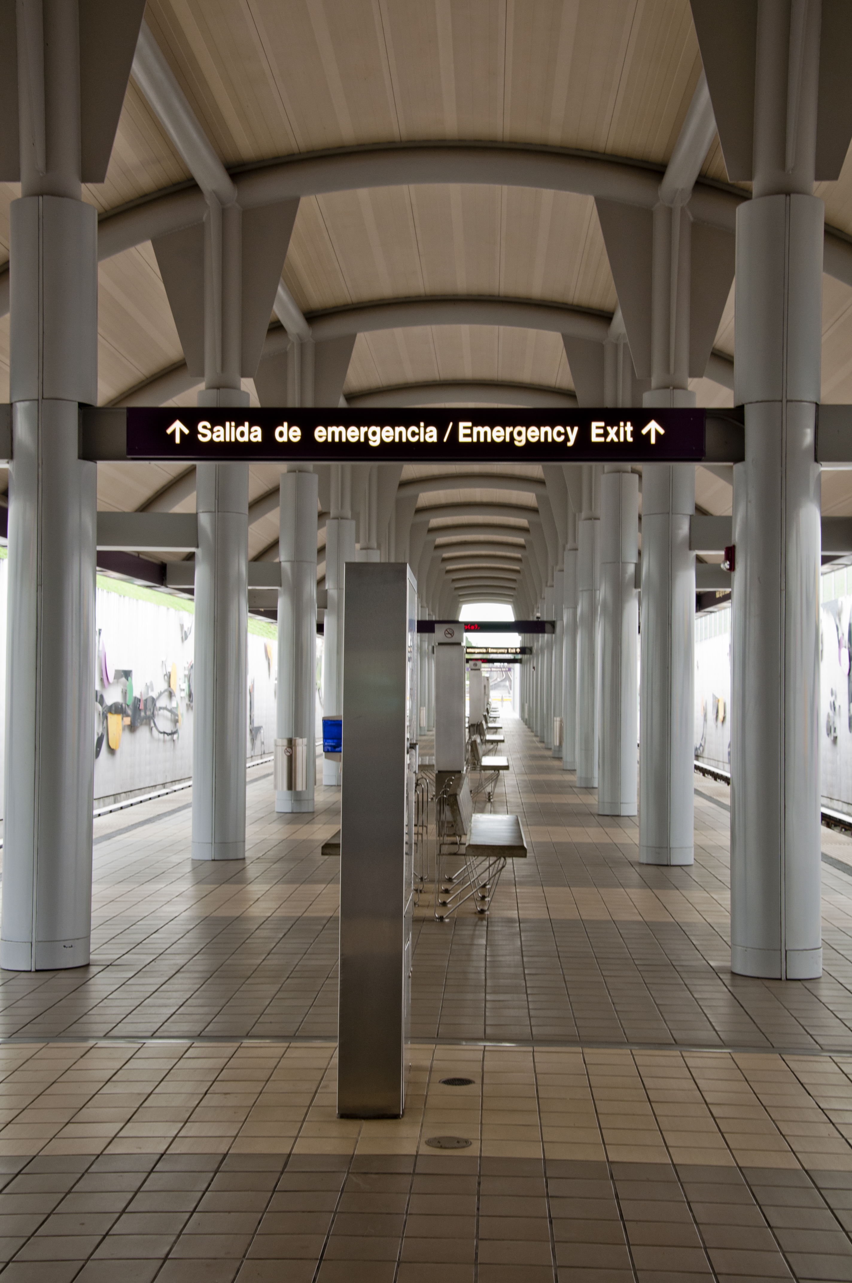 View of half the elevated Jardines Station. All stations are designed to handle three permanently coupled pairs (6 vehicles). With a capacity of transporting around 400,000 riders daily, today Tren Urbano transports only about 40,000 riders, 10% percent of its full potential.